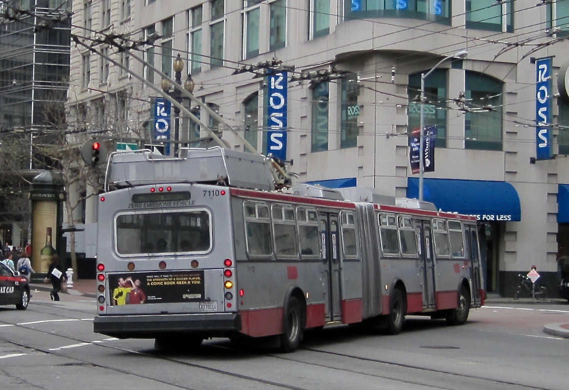 Close-up of San Francisco ETI (Škoda/AAI) 15TrSF trolleybus No. 7110, southbound on route 30, crossing Market Street to enter Fourth Street, in 2011.